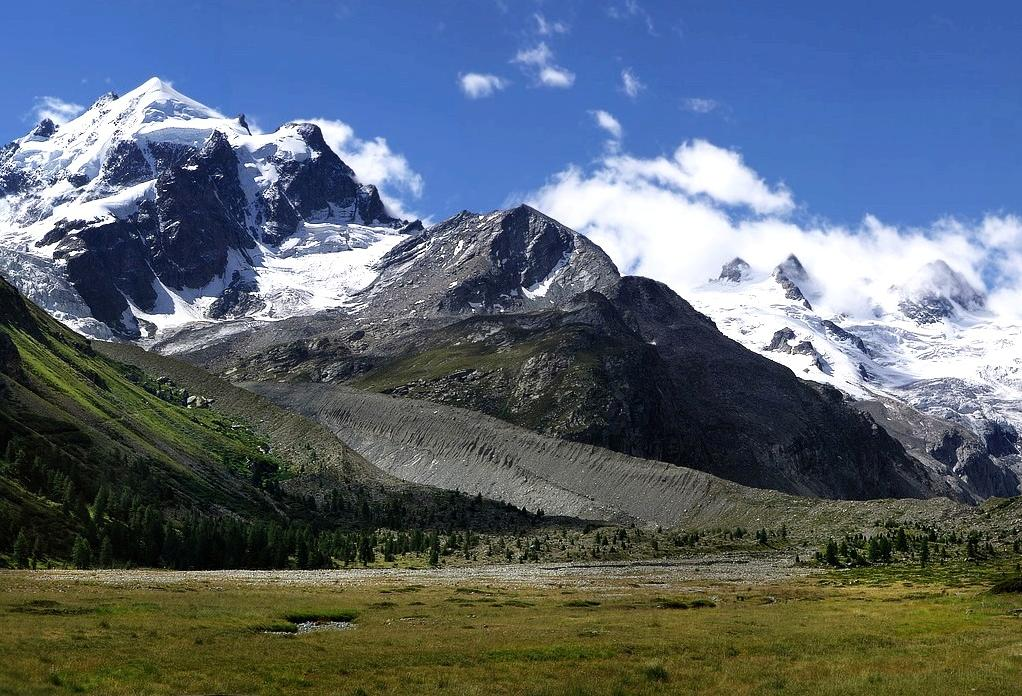 Val Roseg with Piz Roseg, Graubünden